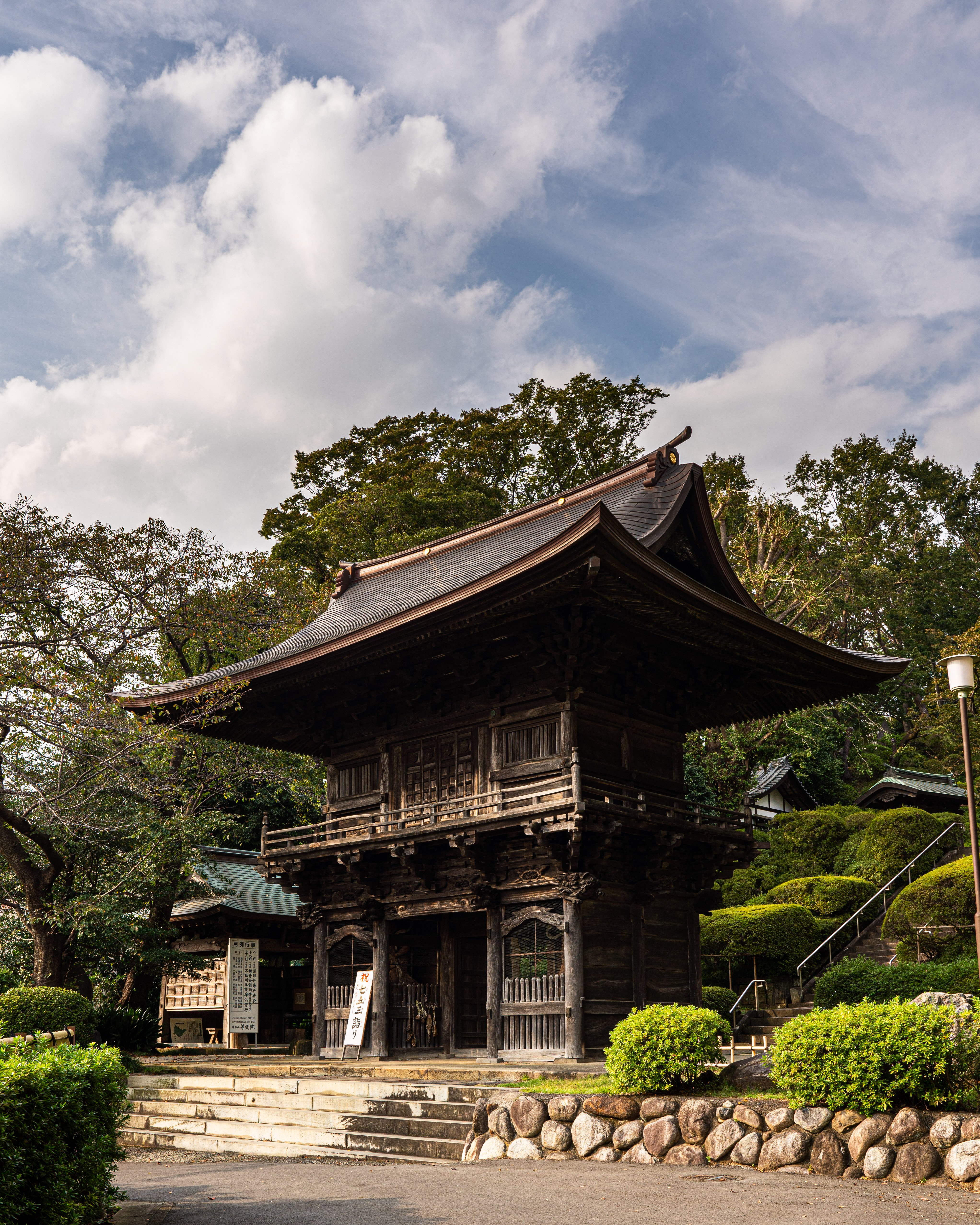 (The Azalea Temple when it's not azalea season)